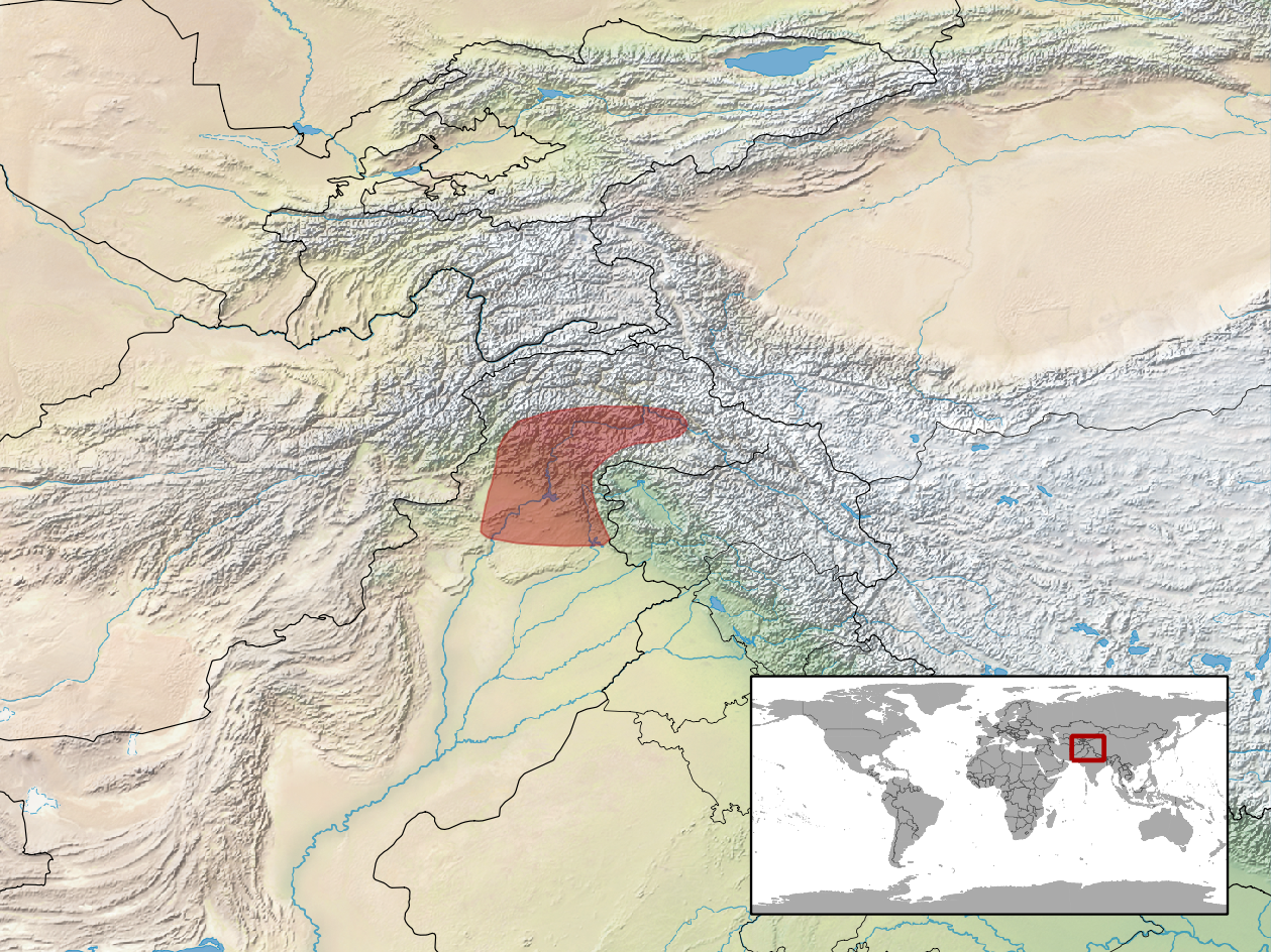 geographic distribution of Cyrtopodion potoharense (Native: Pakistan)